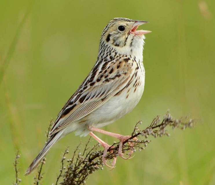 Ammodramus bairdii (Baird's sparrow)